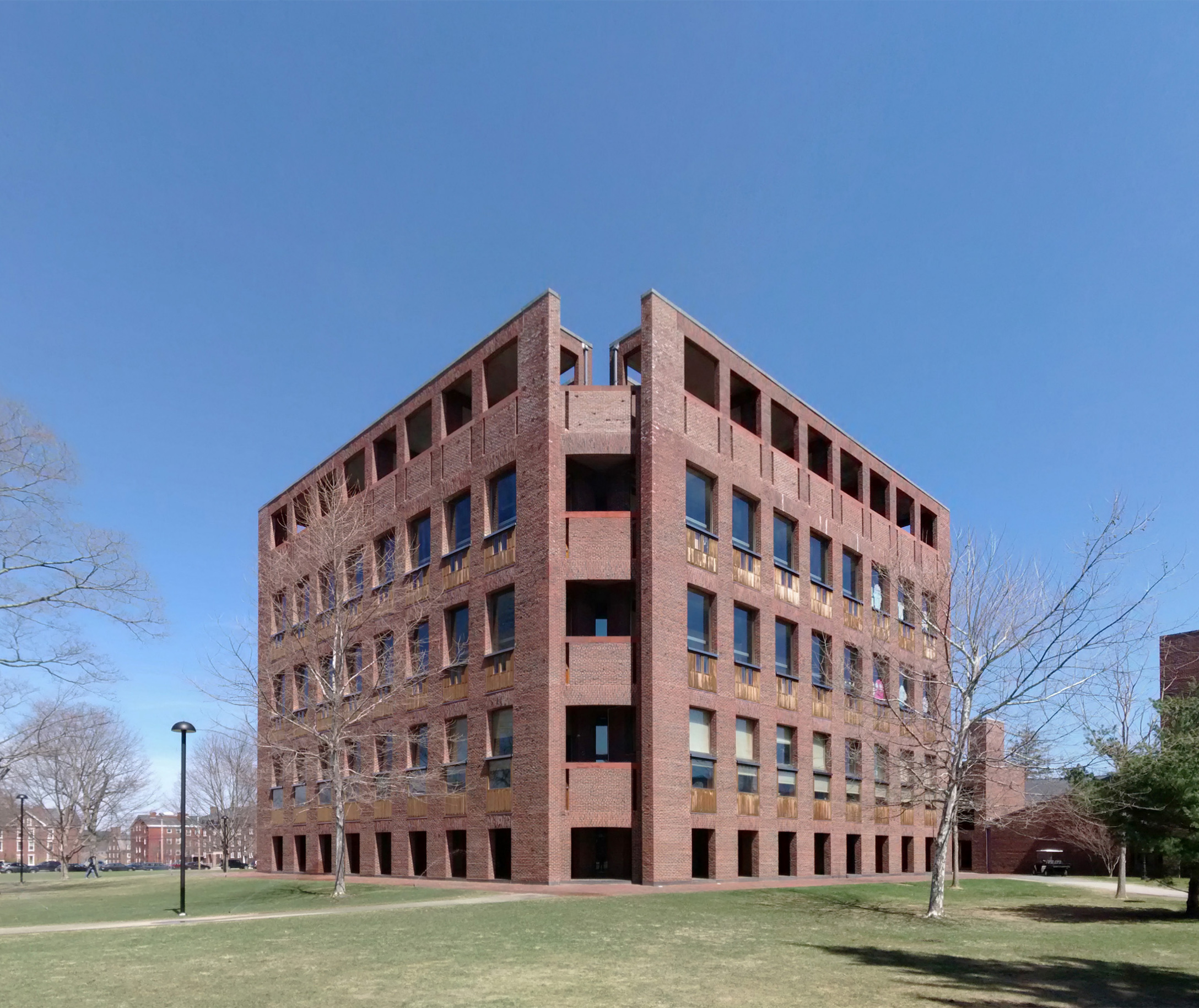 Phillips Exeter Academy Library, 1965–1971, Louis Kahn, Exeter, New Hampshire